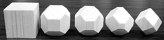 chamfering cube to rhombic dodecahedron